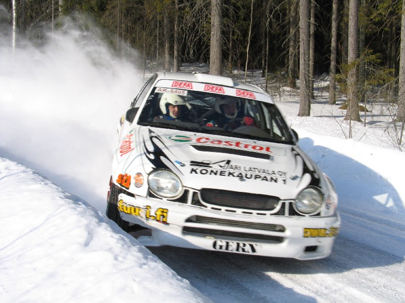 Jari Latvala driving his Toyota Corolla WRC at the 2005 Peurunka Rally.